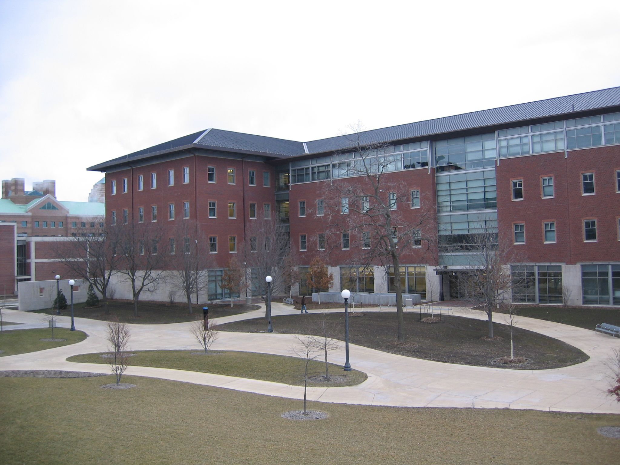 New NCSA building at UIUC